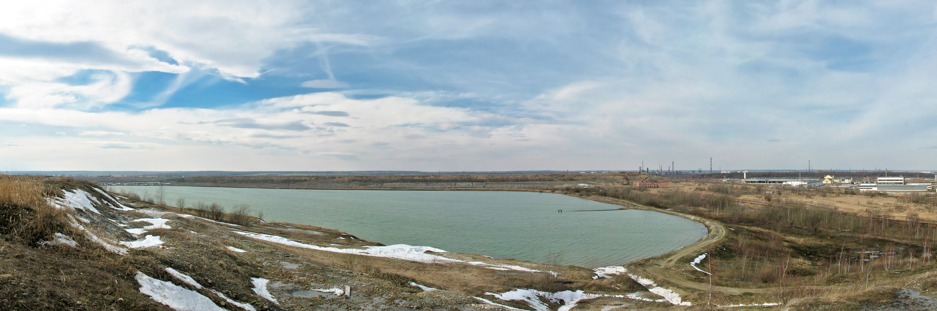 Tailing (section 1)